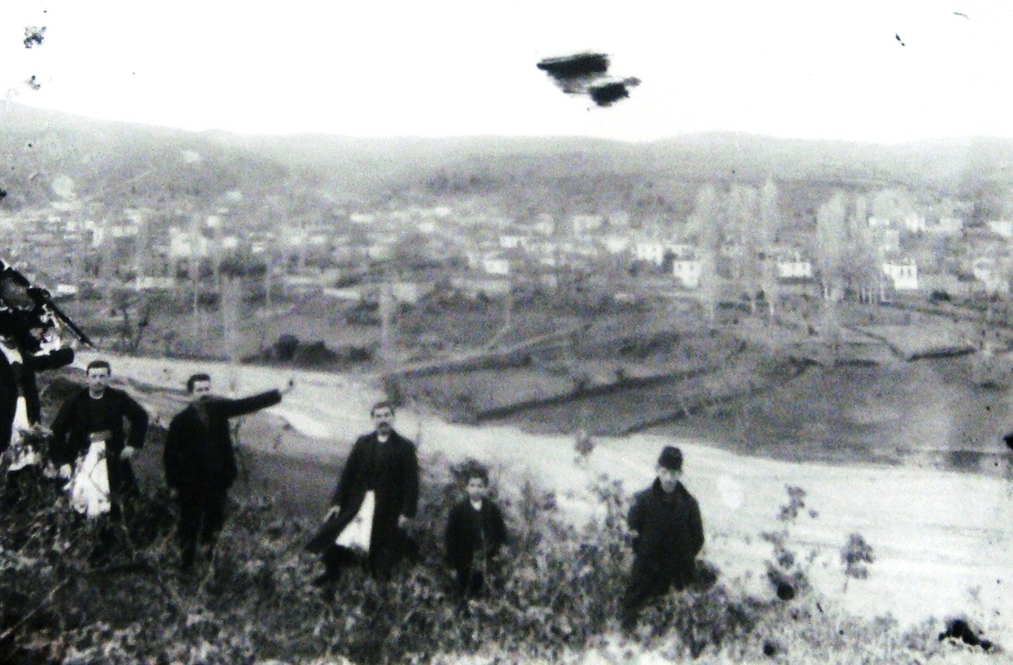 View of the village Negovan, Albanian Vlach village. (1906-1907) (Damaged glass plate) This media file is produced by Wikipedian in Residence in Category:Wikipedian in Residence at DARM in 2016.